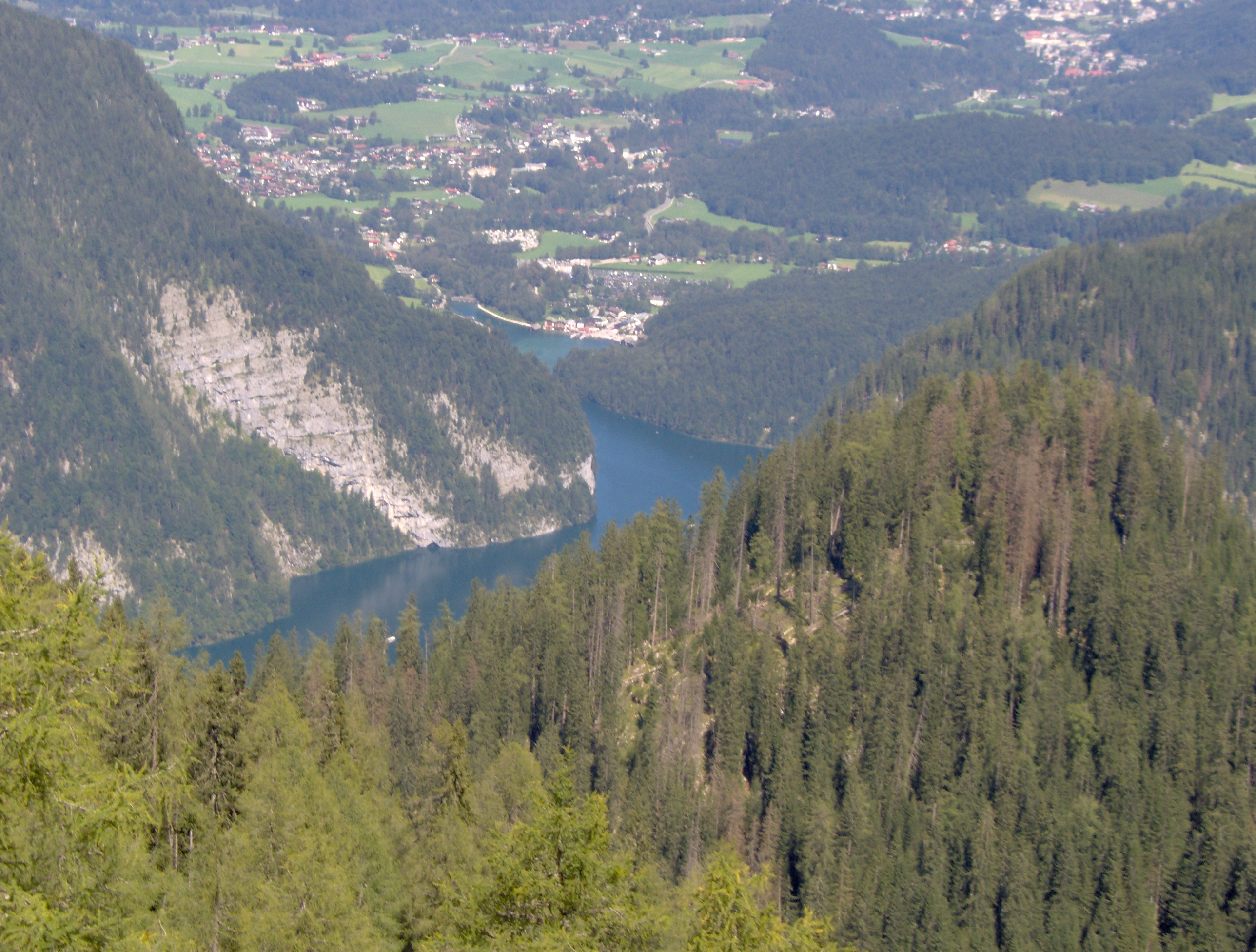 View across Lake Königssee from above its eastern shore heading NNW towards the settlements of Schönau (upper center) and Berchtesgaden (right top).